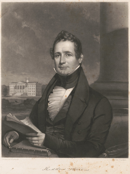 Print shows Thaddeus Stevens, half-length portrait, facing front, holding papers in left hand, resting on book. Includes facsimile signature.